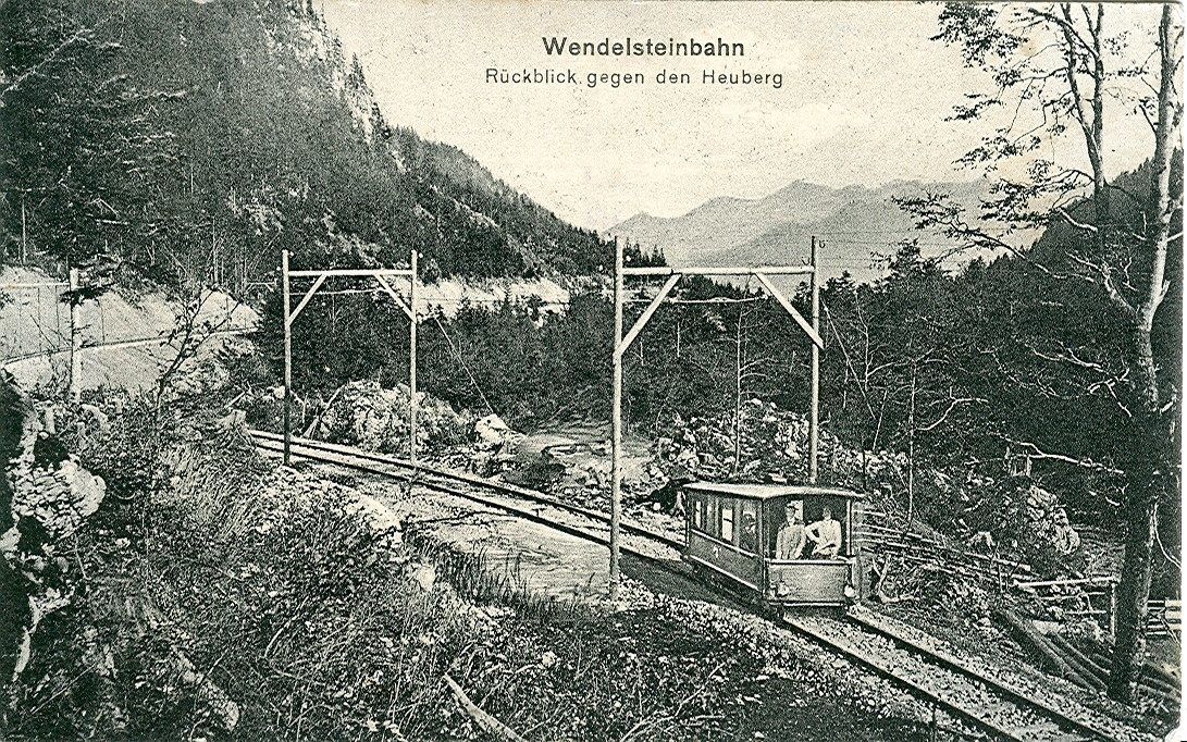 Postcard, dated 5.10.1915. Title: "Wendelstein train. View against the Heuberg"